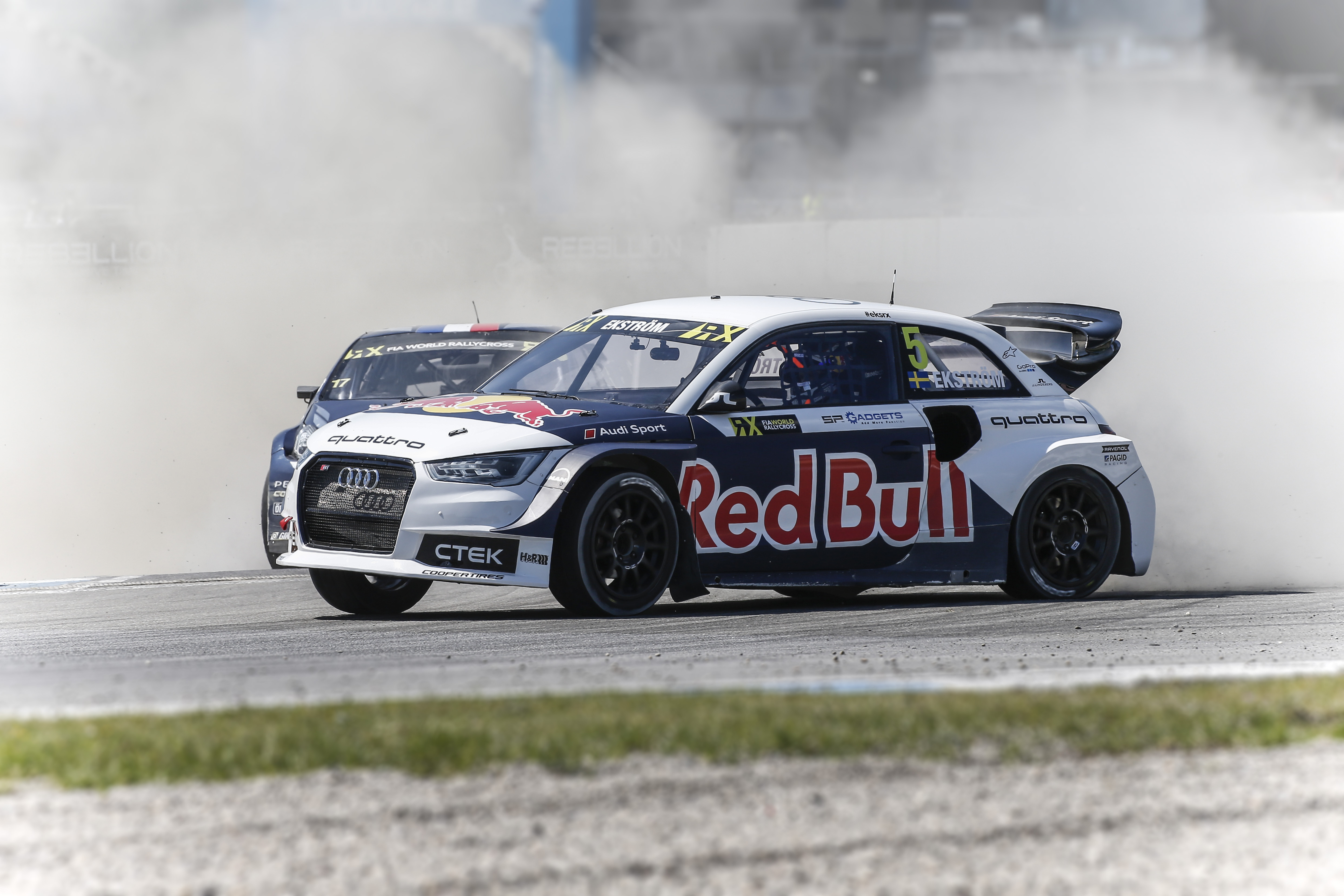 2016 FIA World Rallycross Championship // Round 02 // Hockenheim // 6-8 May, 2016 // Worldwide Copyright: EKS/McKlein